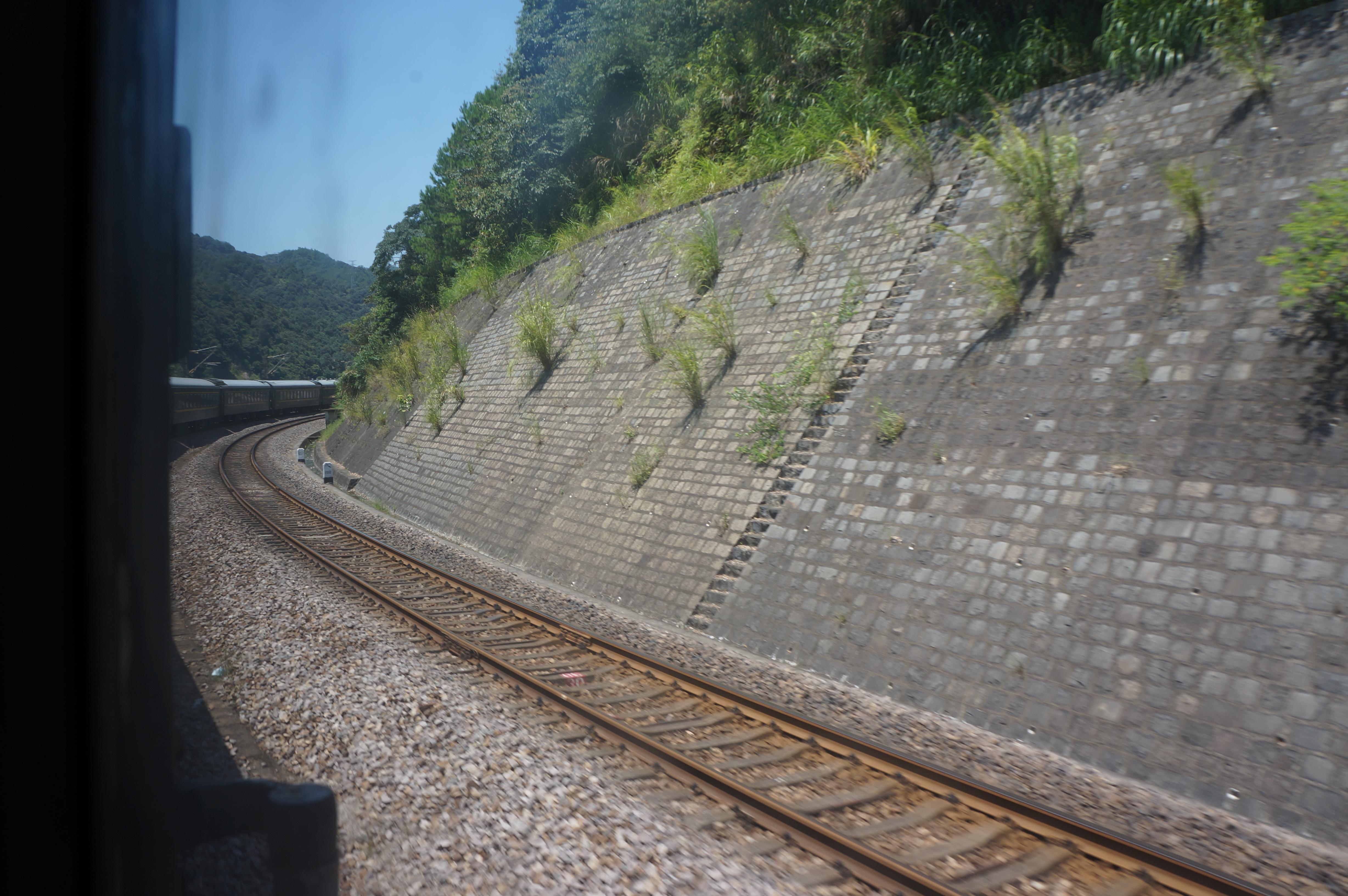 201708 Zhangping-Quanzhou-Xiaocuogang Railway near Meishuikeng